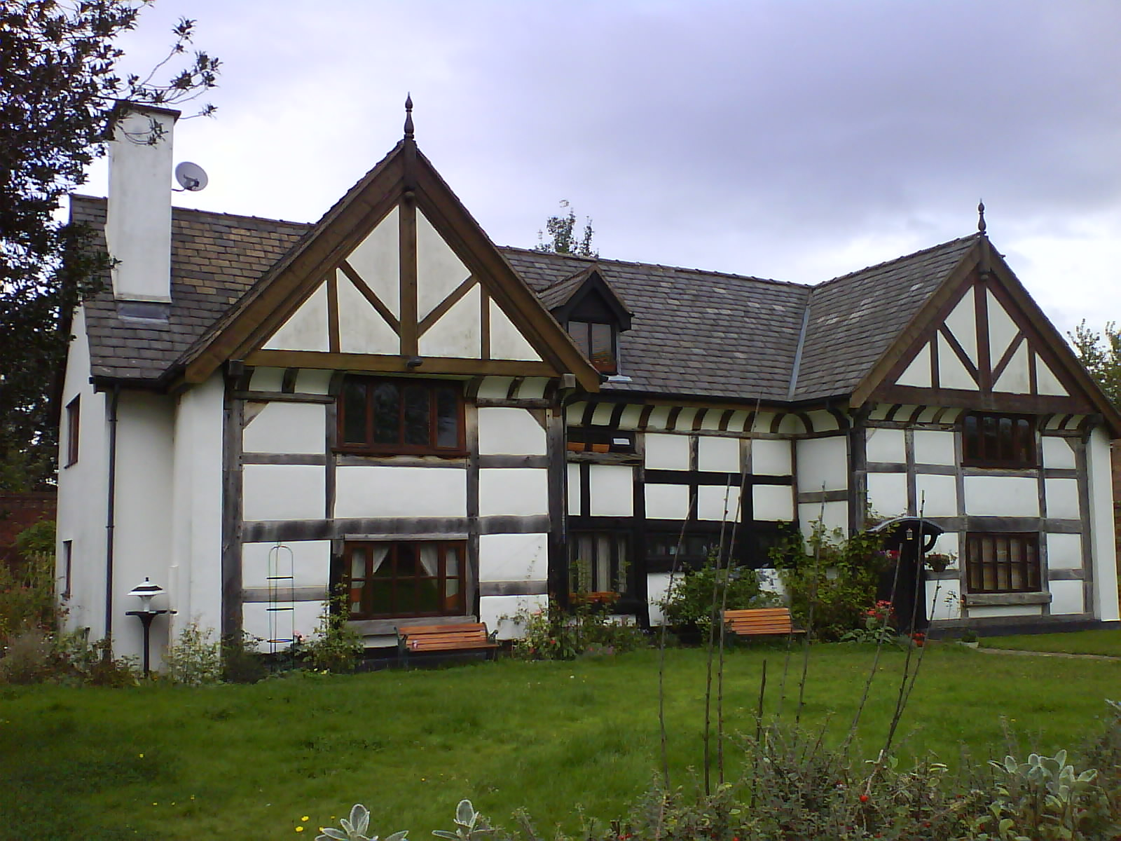 Kersal Cell is a grade II* listed building in Kersal, Salford, Greater Manchester. which was originally part of a Cluniac Monastery. Built in 1563, it was once owned by the writer John Byrom who wrote the hymn "Christians Awake". It was used as a country club for many years but is now split into three private homes.